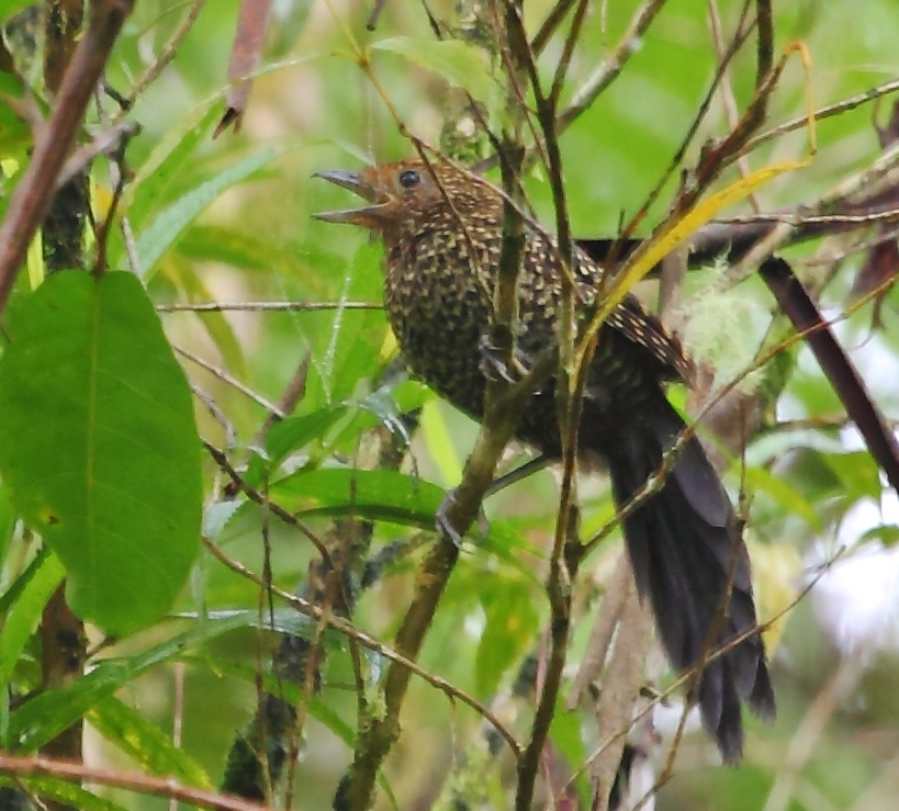 Large-tailed antshrike (female) at São Luiz do Paraitinga - SP -Brazil